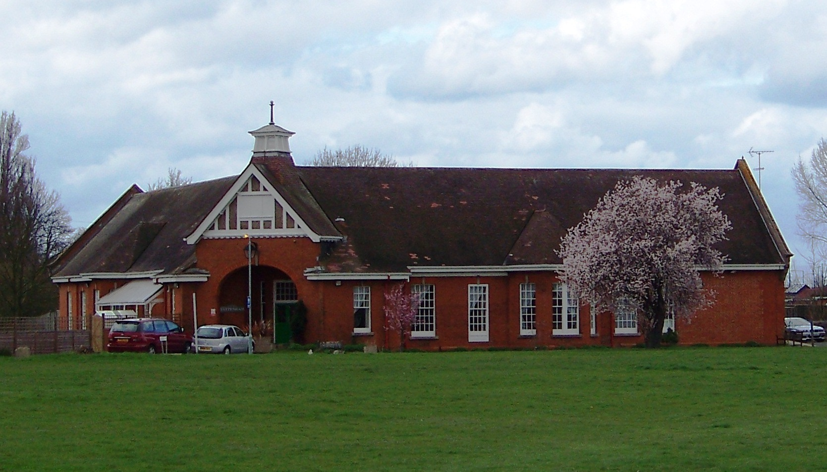 Thorn villa, a ward for the mentally handicapped at St. Ebba's Hospital.